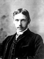 Henry Fairfield Osborn in 1890 Reprinted in S. Baatz, 1990. Knowledge, Culture, and Science in the Metropolis: The New York Academy of Sciences 1817-1970